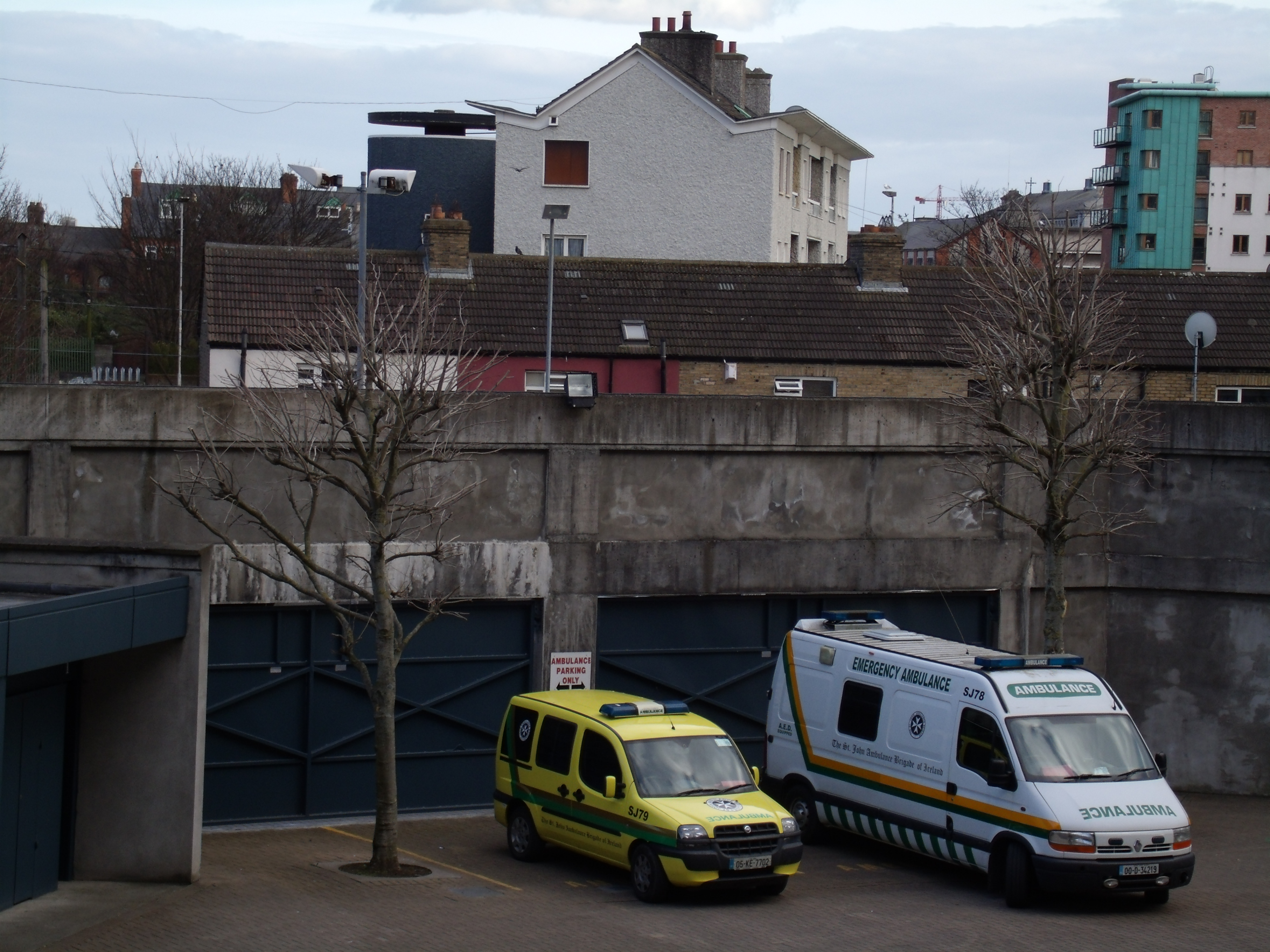 Emergency vehicles, Croke Park